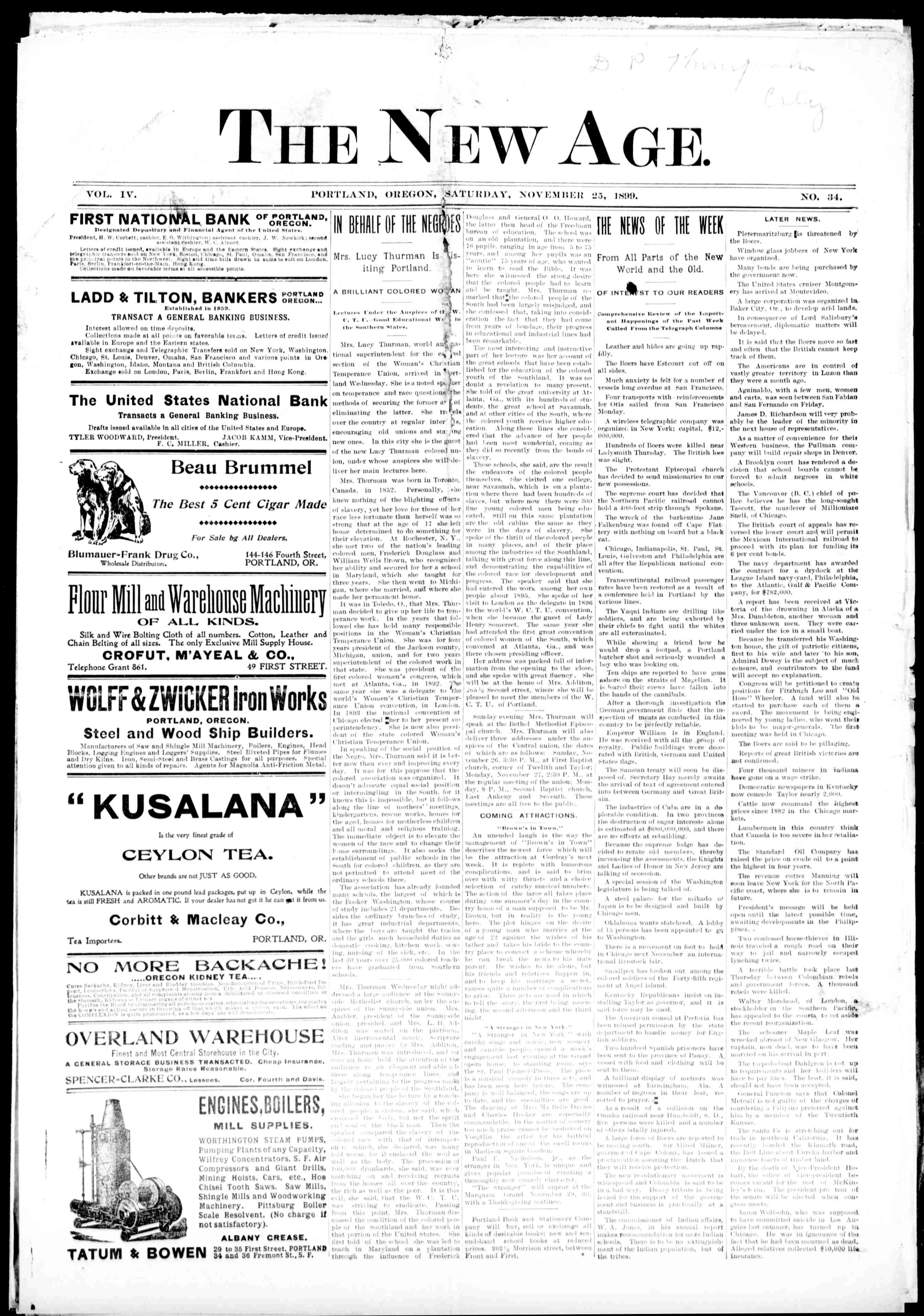 Front page of the November 25, 1899 edition of The New Age, the first African-American newspaper in Portland, Oregon.